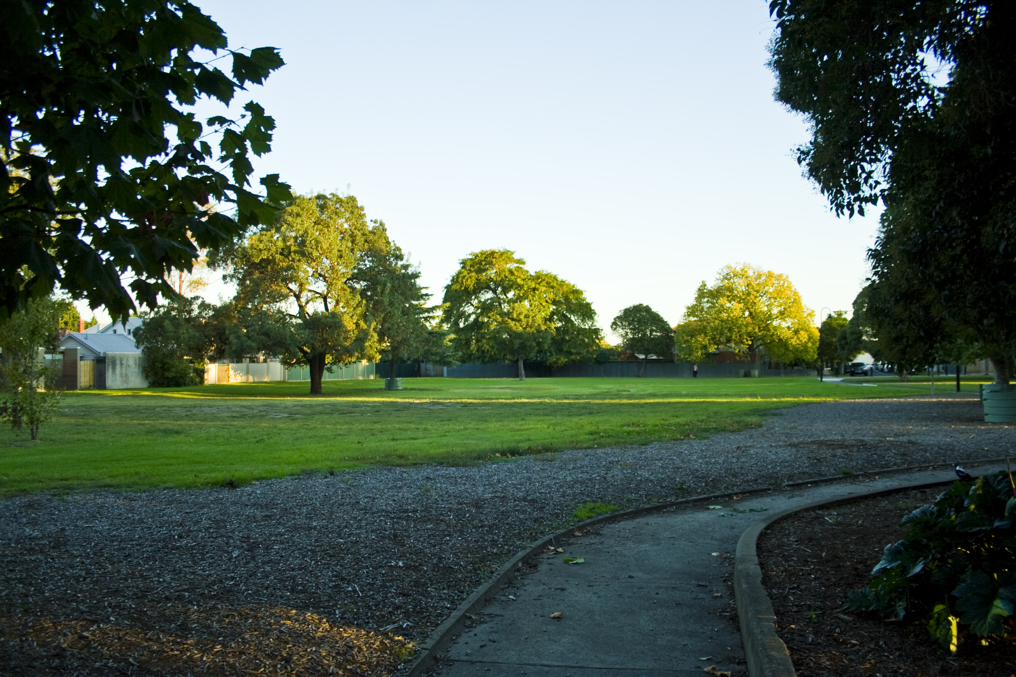 Johnson Park, Northcote, Victoria, Australia. Looking southwards towards the open play area on the south east boundaries of the Park